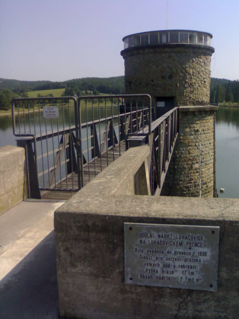 Luhačovice Dam – view from the dam